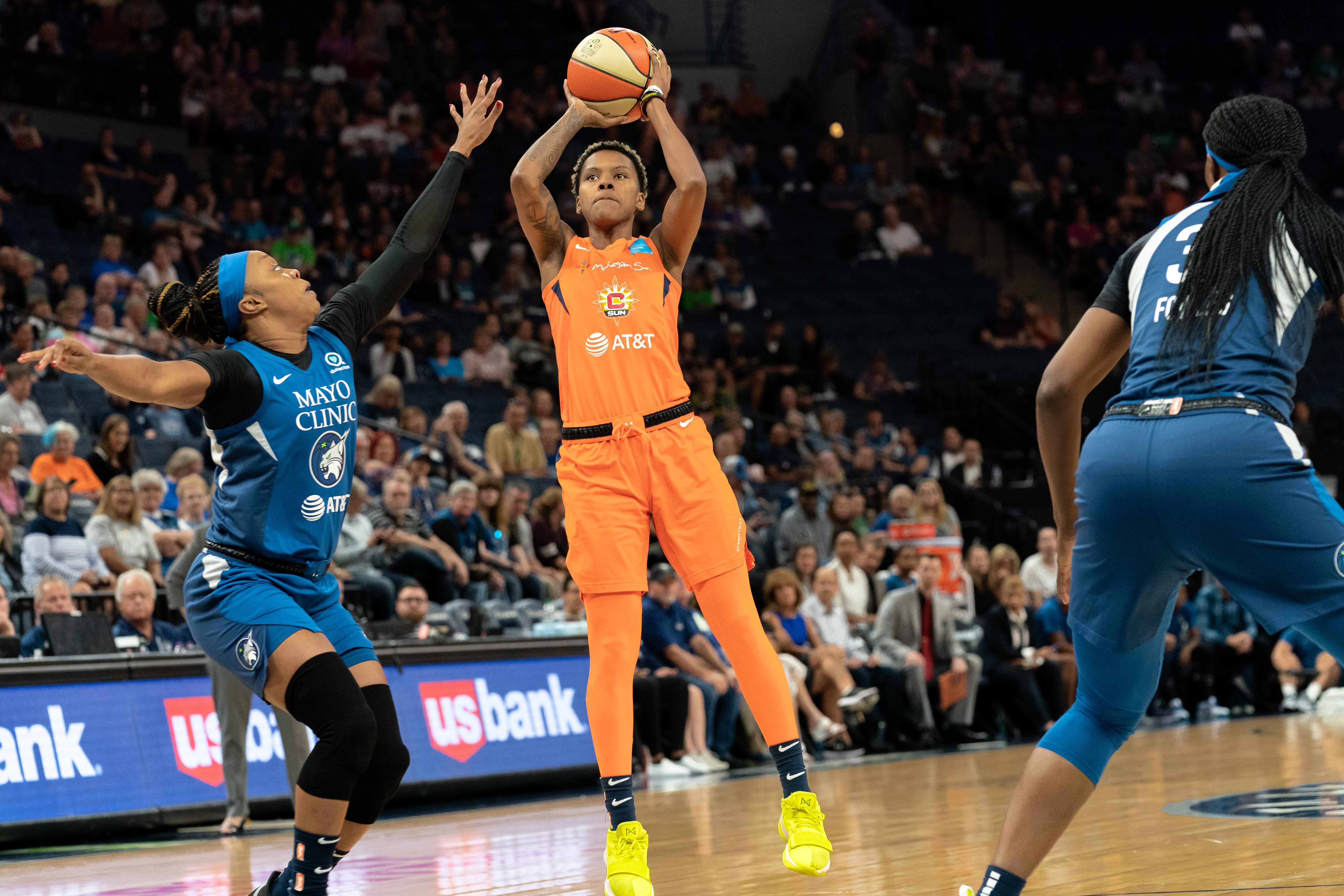 Connecticut Sun player Courtney Williams in a game against the Minnesota Lynx